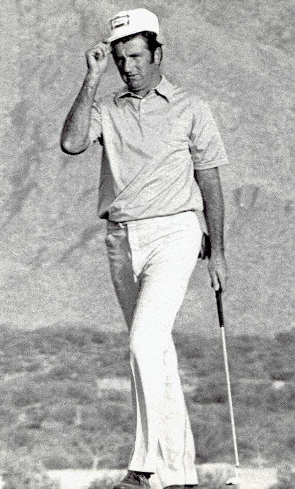 1972 Wire Photo golfer George Archer at Tucson Open at Tucson National Golf Club